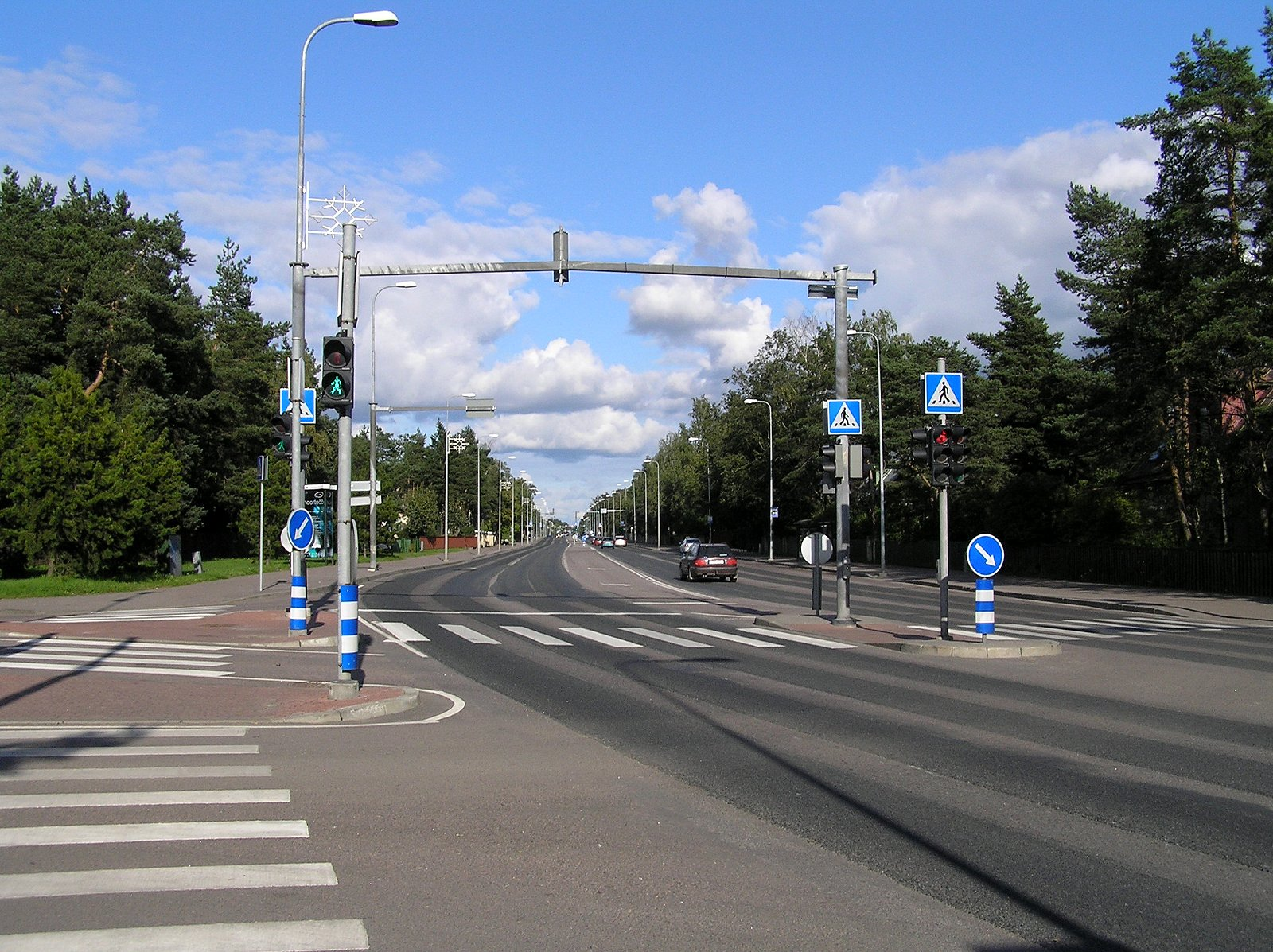 Pedestrian crosswalk in Tallinn